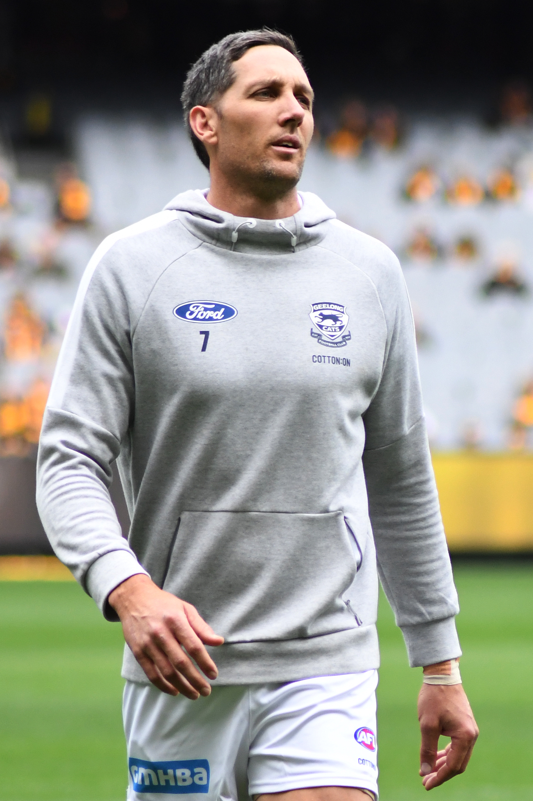 Harry Taylor of Geelong during the 2019 AFL round 5 match between Hawthorn and Geelong at the Melbourne Cricket Ground on Monday, 22 April 2019 in Melbourne, Victoria.